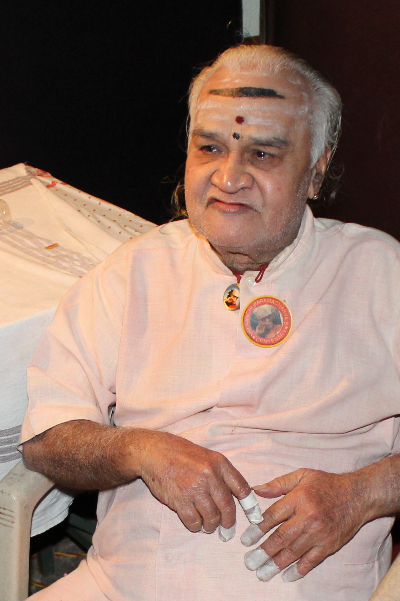 Padma Bhushan Viku Vinayakaram in November 2014.